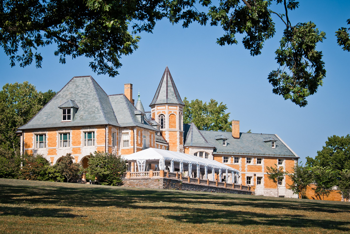 View of Cairnwood from the lawn